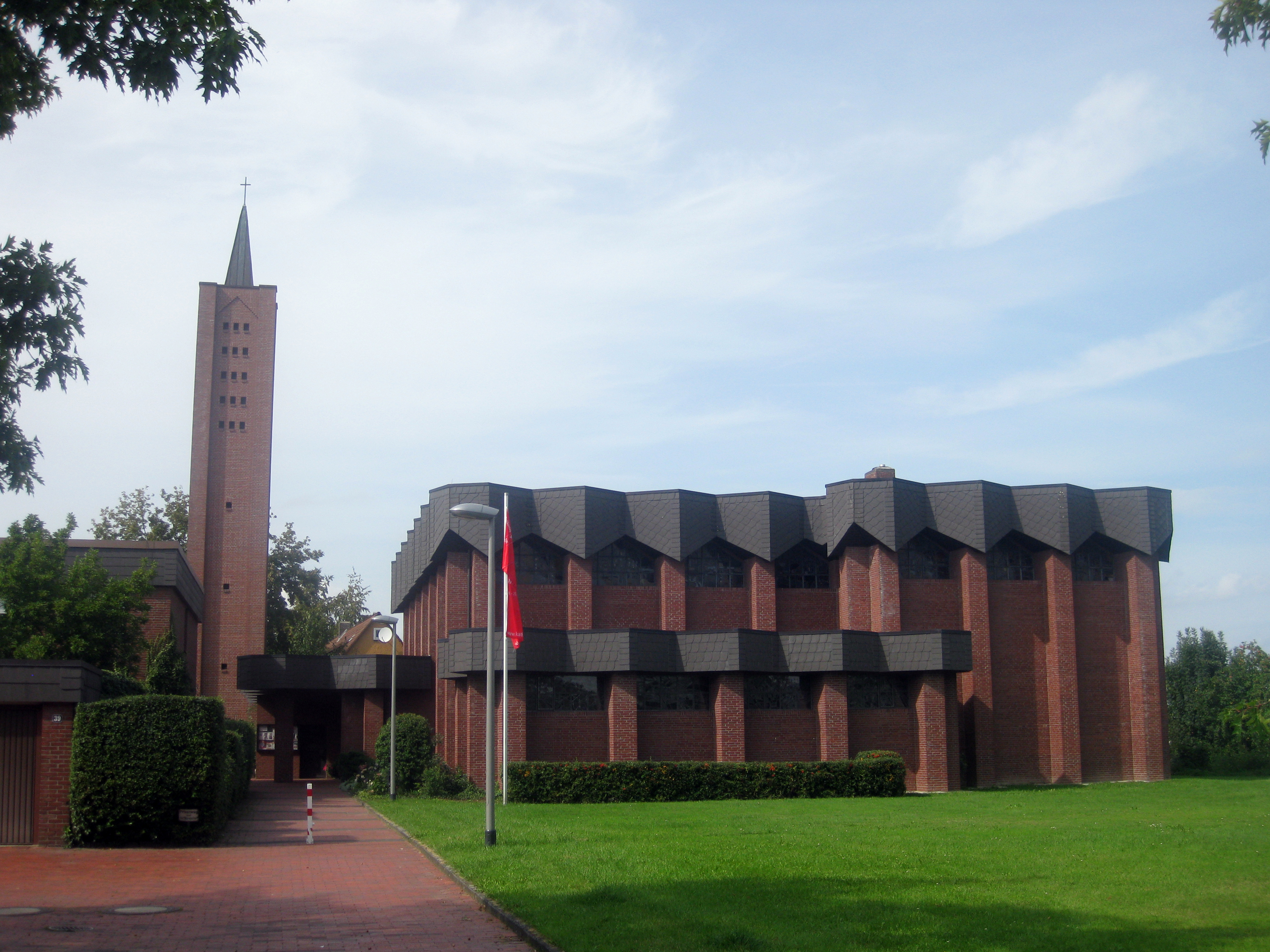 Catholic church St. Johannes Bosco in Lohfelden, Architect: Josef Bieling